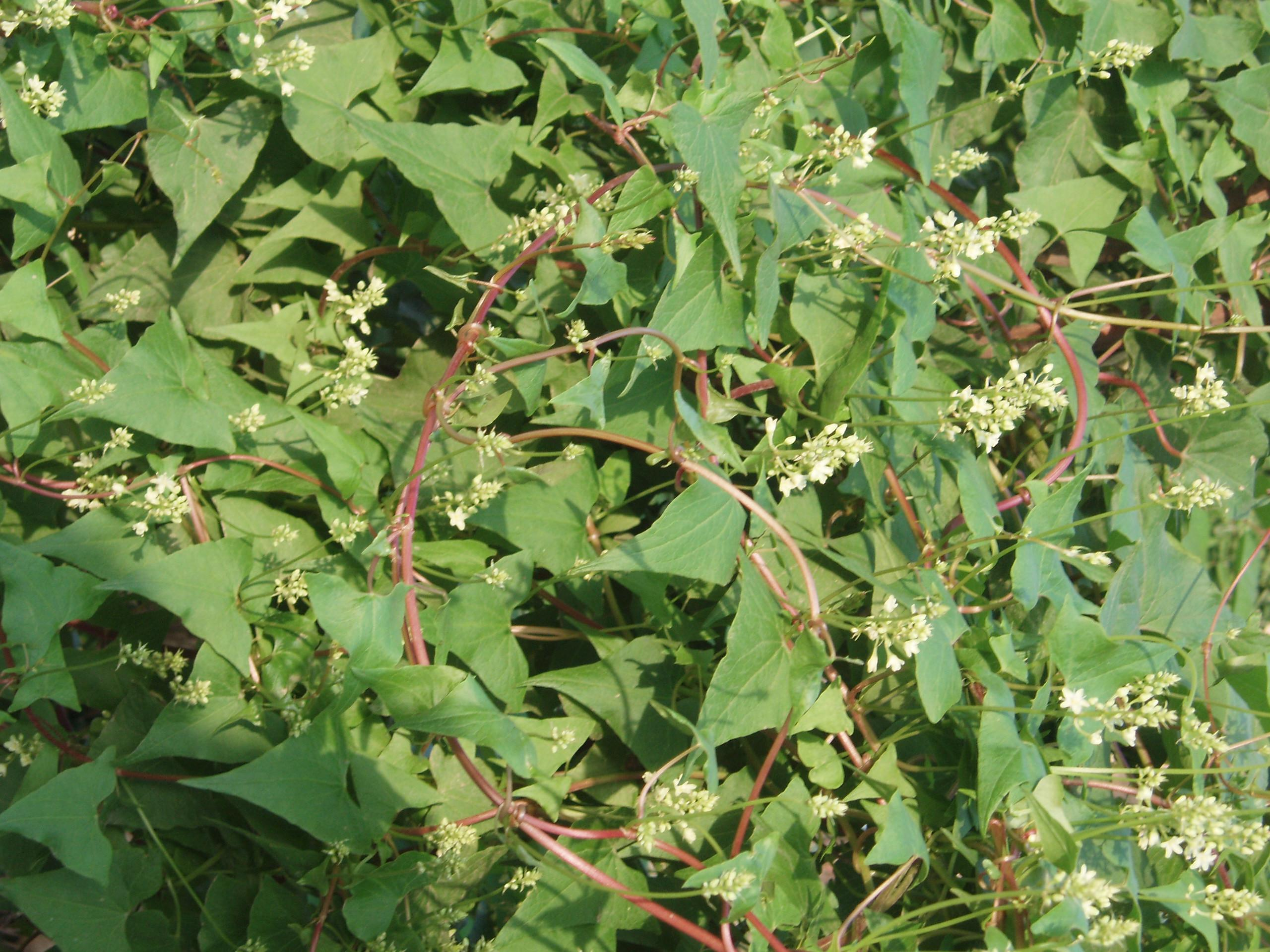 Chinese knotweed